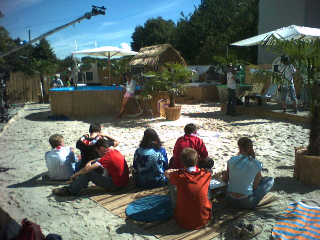 Area, visitors, moderators and swimming-pool on friday at GIGA TV beach-event "GIGA Island" 2007.